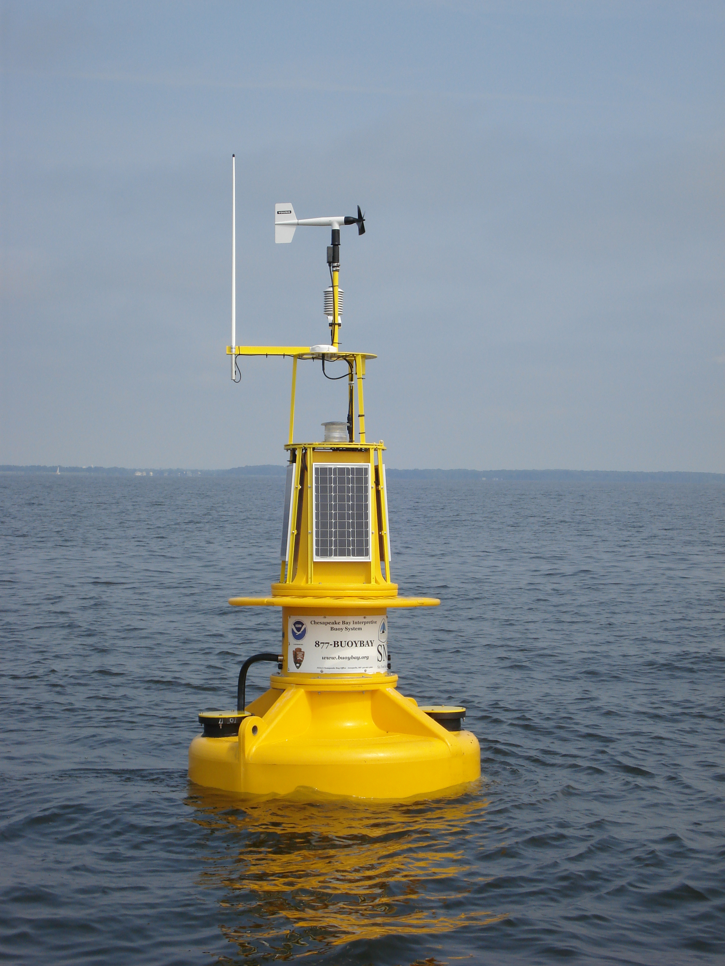 NOAA "Smart buoy" with experimental nutrient sensor, Patapsco River.